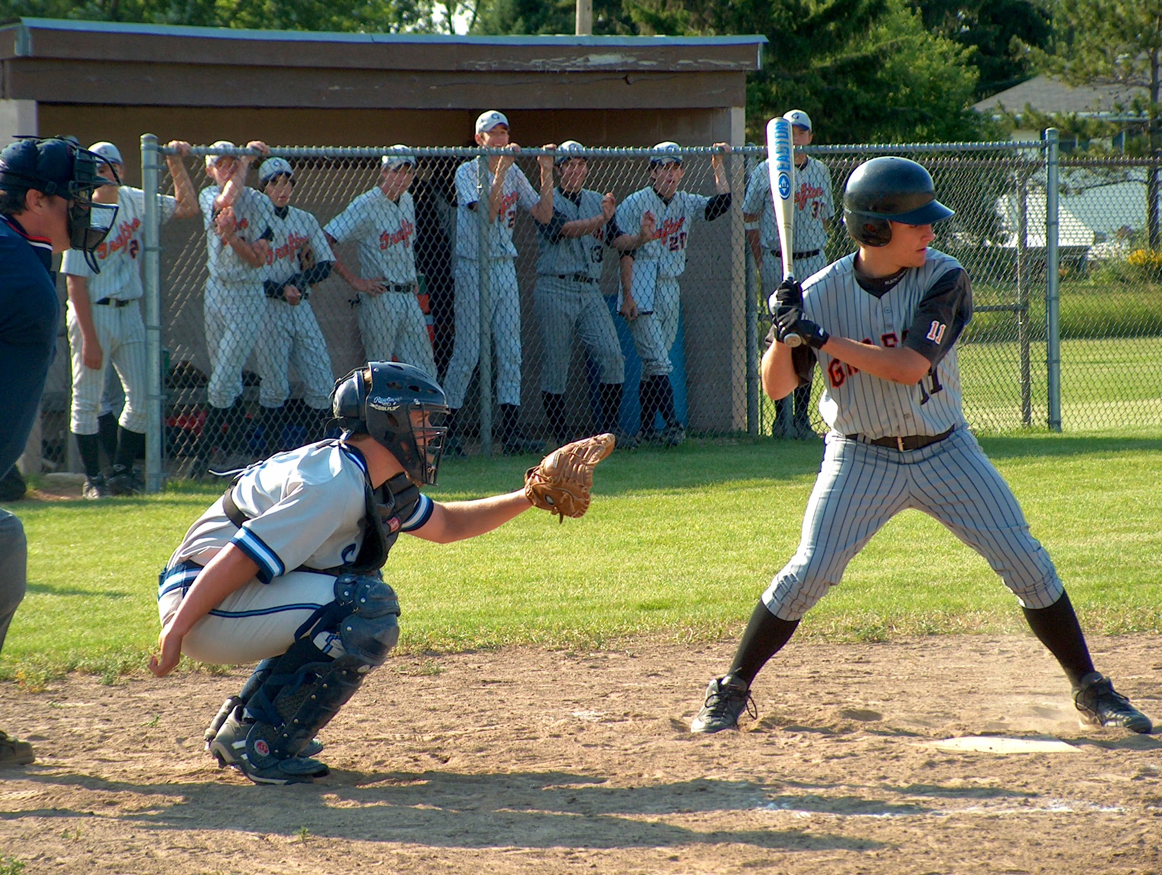 At bat at Grafton High School, Grafton, Wisconsin. Grafton High School Black Hawks baseball team in background.